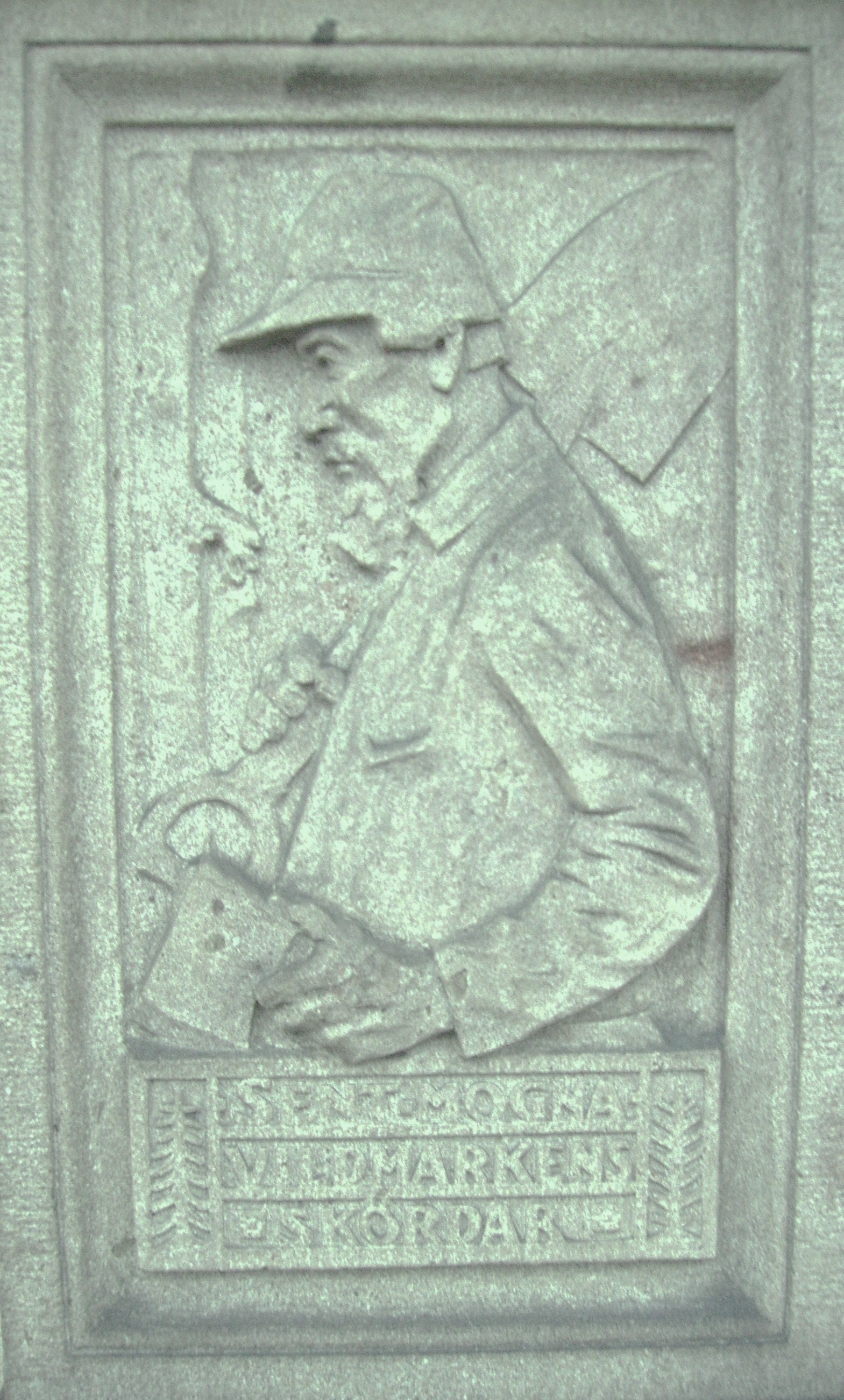 Picture of detail on Nordiska museet depicting logging.